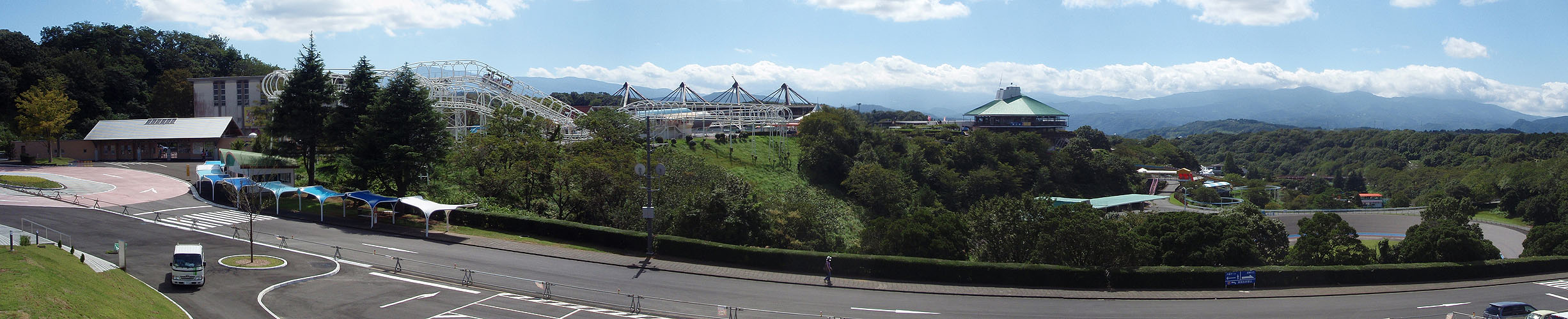 Panorama of the Japan Cycle Sports Center in Izu, Shizuoka Prefecture, Japan